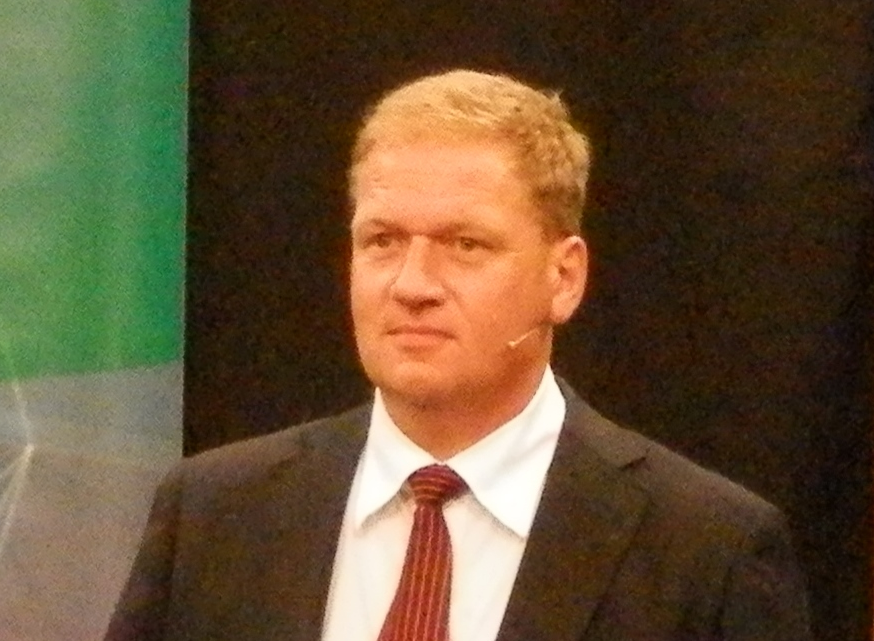 Páll-á-Reynatúgvu, a Faroese politician from Tjóðveldi party. Current President of the Parliament of the Faroe Islands (2016).